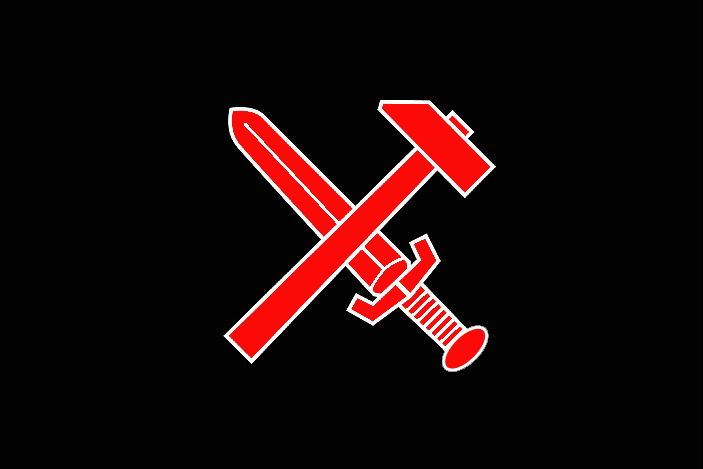 Flag of Otto Strasser´s postwar national socialist organisation "Schwarze Front"